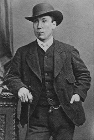 Photograph of Champion sculler James Renforth.